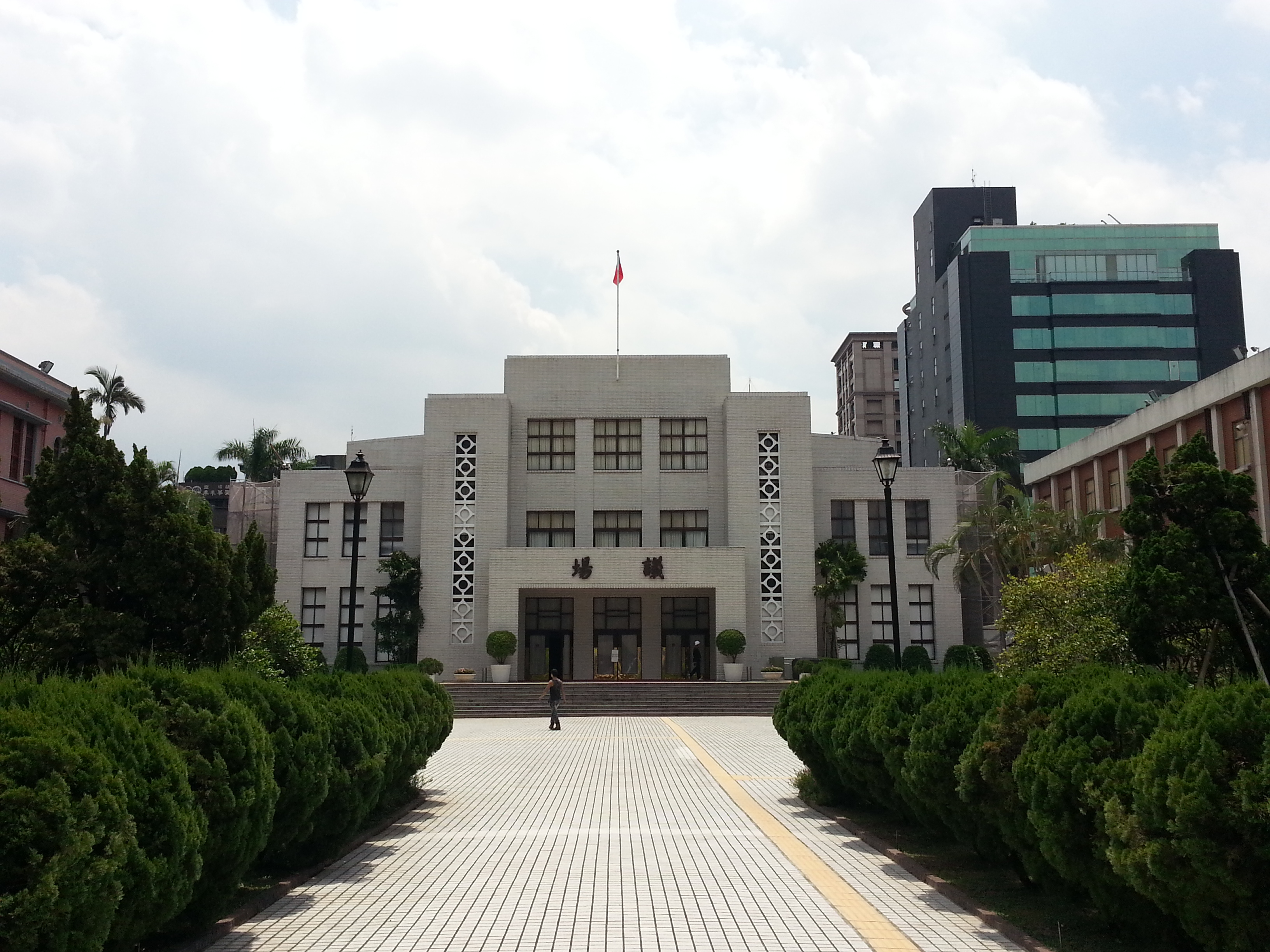 Legislative Yuan of the Republic of China in Taipei, Taiwan.